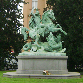 statue of st_juraj in Zagreb, by Anton Dominik Fernkorn